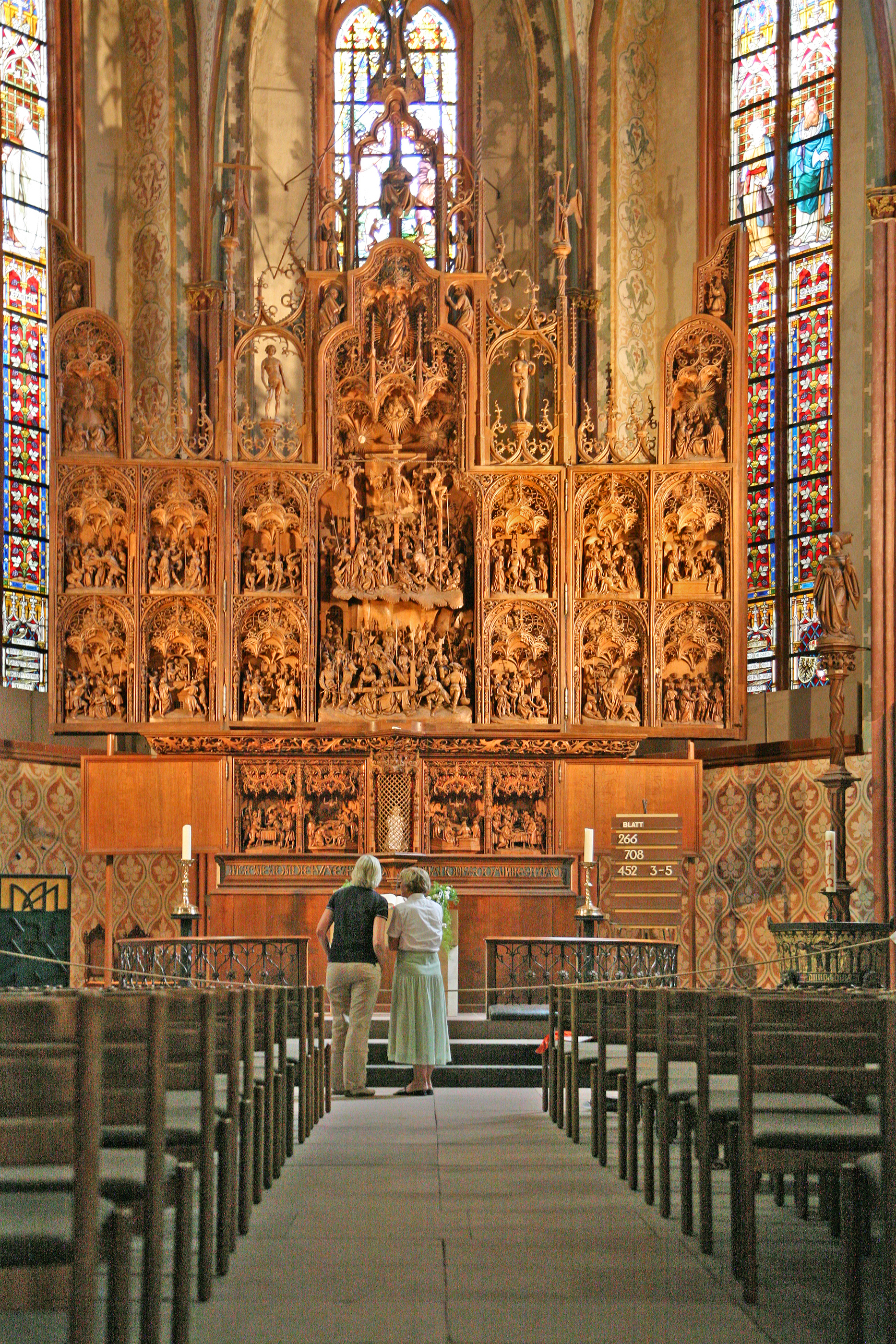 St. Peter's Cathedral in Schleswig, a medieval sacred building with impressive features. Bordesholmer altar: the altar made of oak wood from 1540 to 1521 is 12.60 meters high and is equipped with 362 figures of the Passion story.